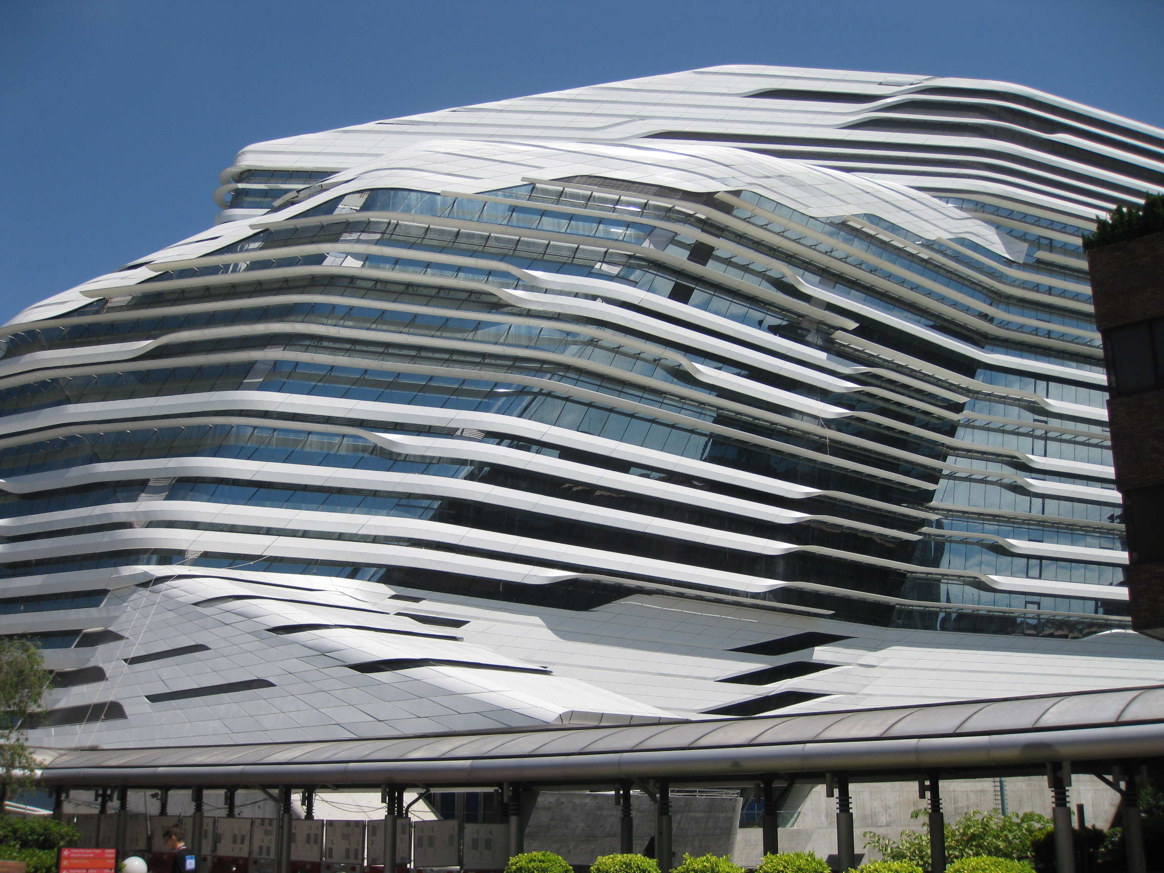 Image section of the HK PolyU Jockey Club Innovation Tower (V) with the Covered Walkway